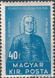 Stamps issued to commemorate the 400th anniversary of Reformed College of Debrecen (Hatvani István) Denomination: 40 fillér